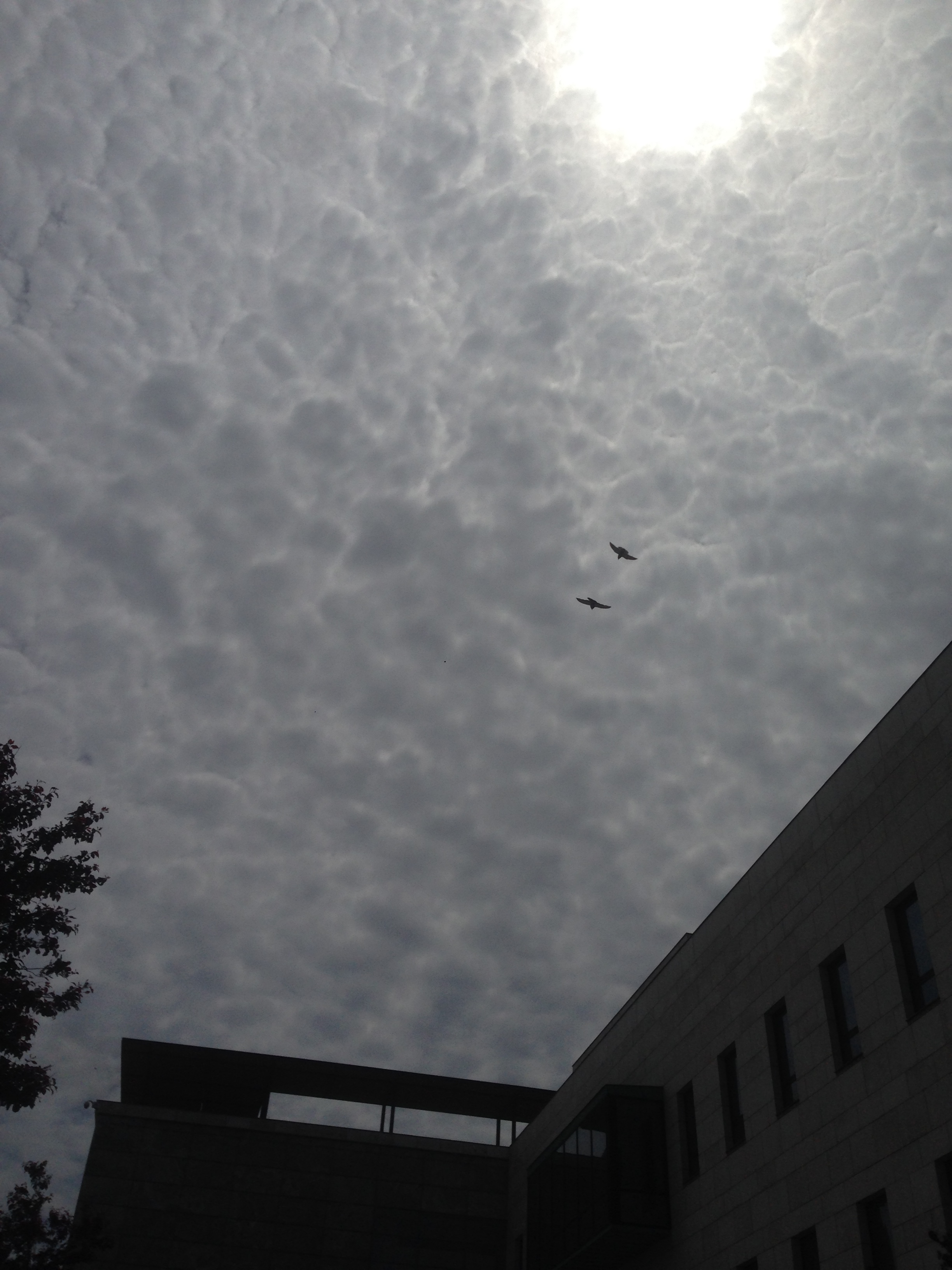 ADA University Campus